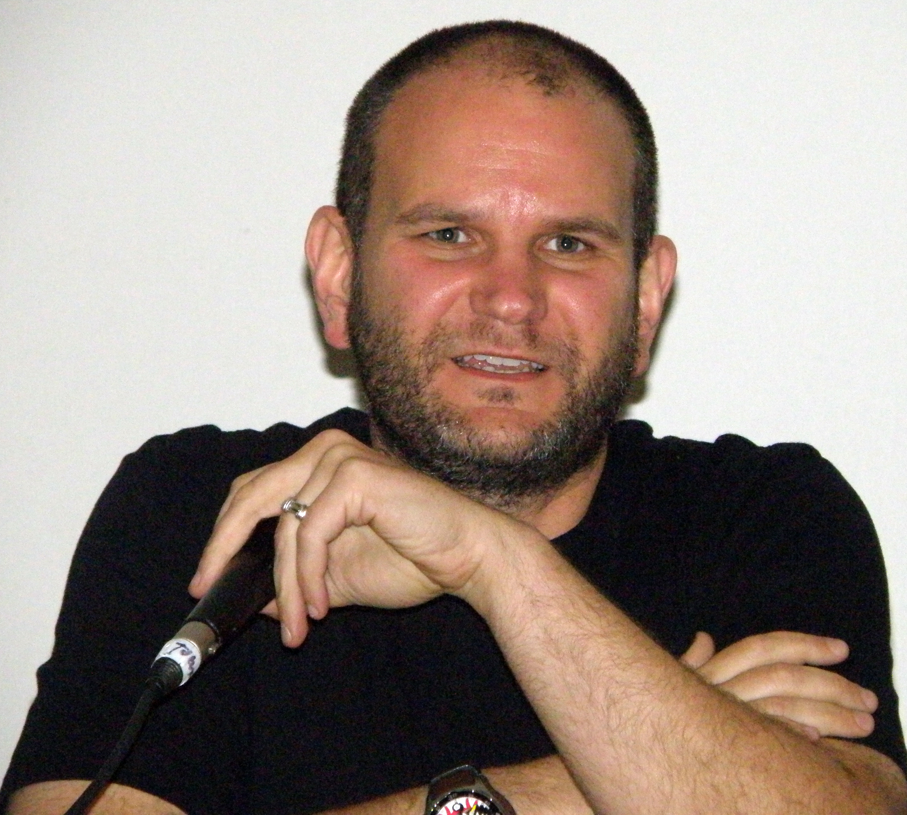 Javier Grillo-Marxuach at the 2008 Comic-Con International.